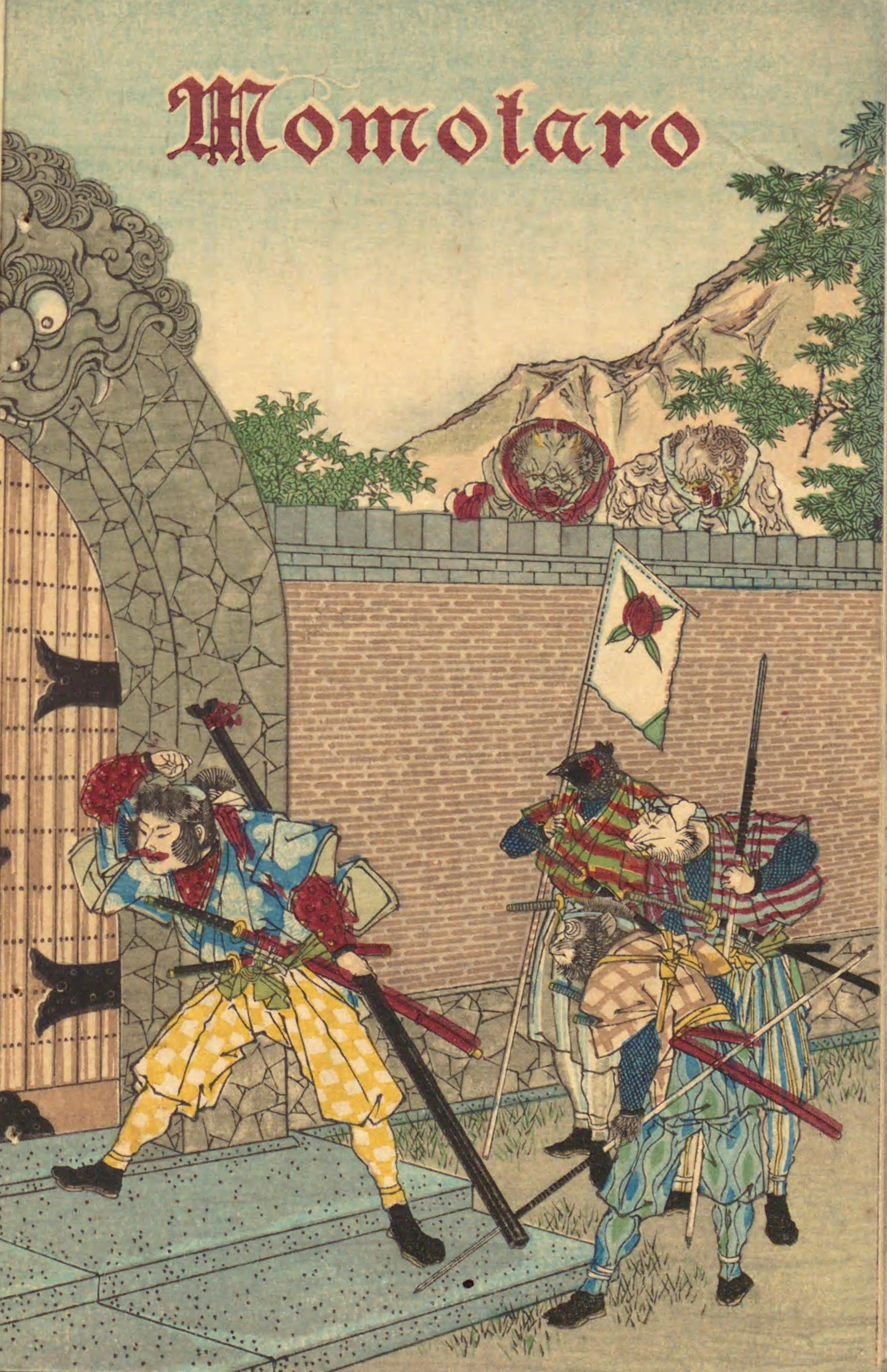 Cover illustration for the chirimen book Japanese Fairy Tale Series, No. 1, "Momotaro". 1885 first edition.